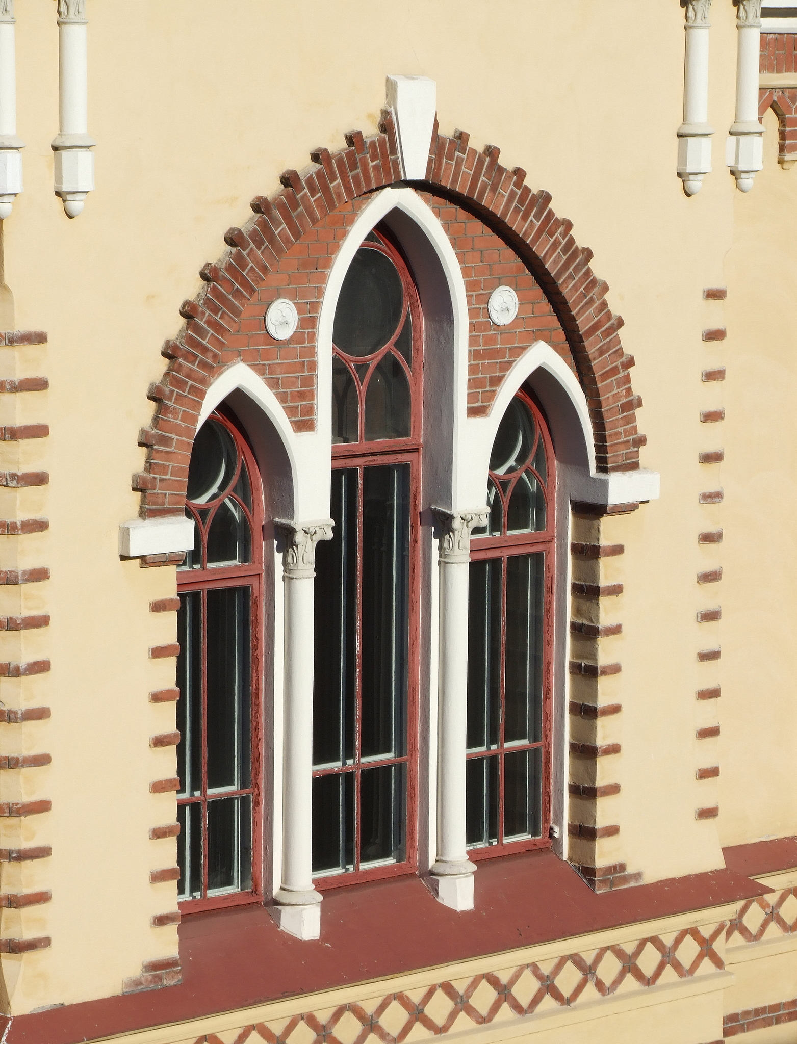 A gothic window of Myllytulli Lower Secondary School in Myllytulli, Oulu, Finland. The building was built to be a secondary school for girls in 1901 and it was designed by architect Jacob Ahrenberg.